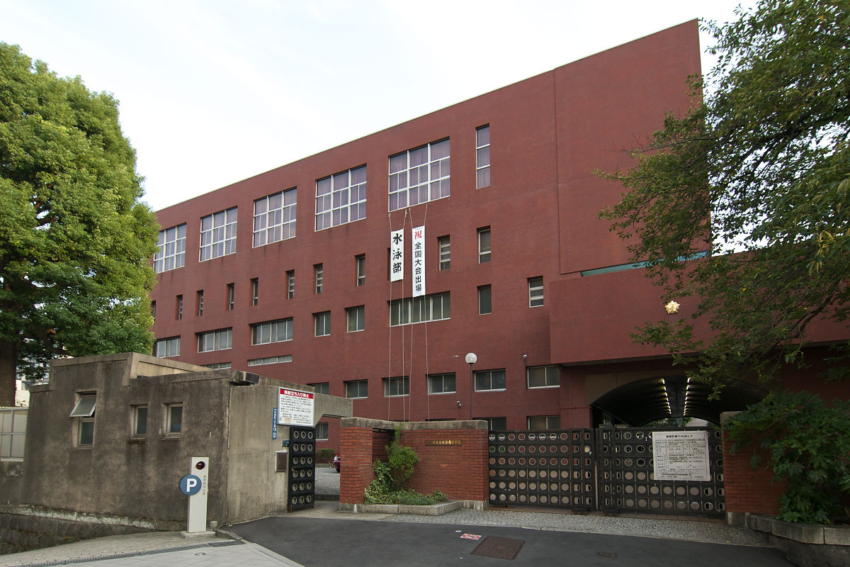 Hibiya highschool Nagata-cho Chiyoda-ku, Tokyo